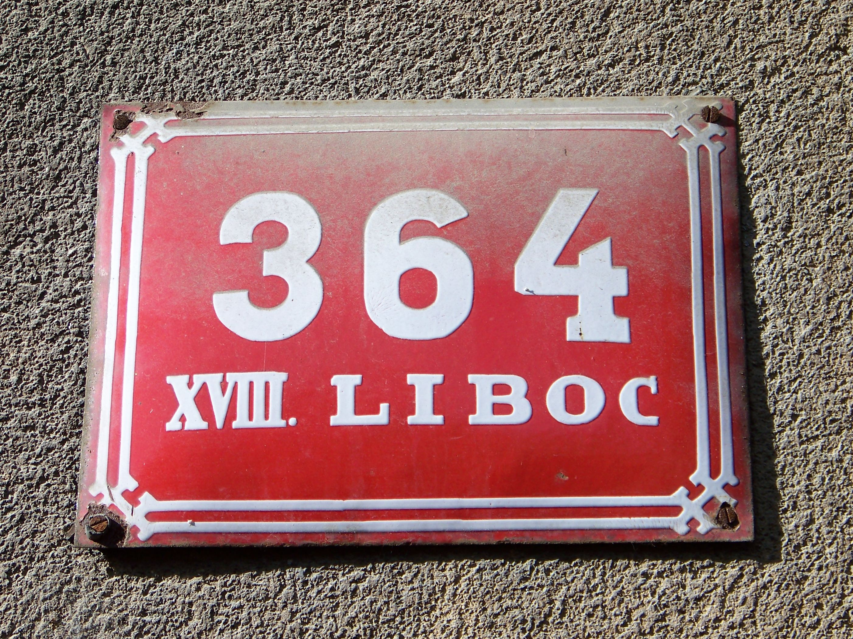 Prague-Liboc, the Czech Republic. Za vokovickou vozovnou 364/15, a house number.